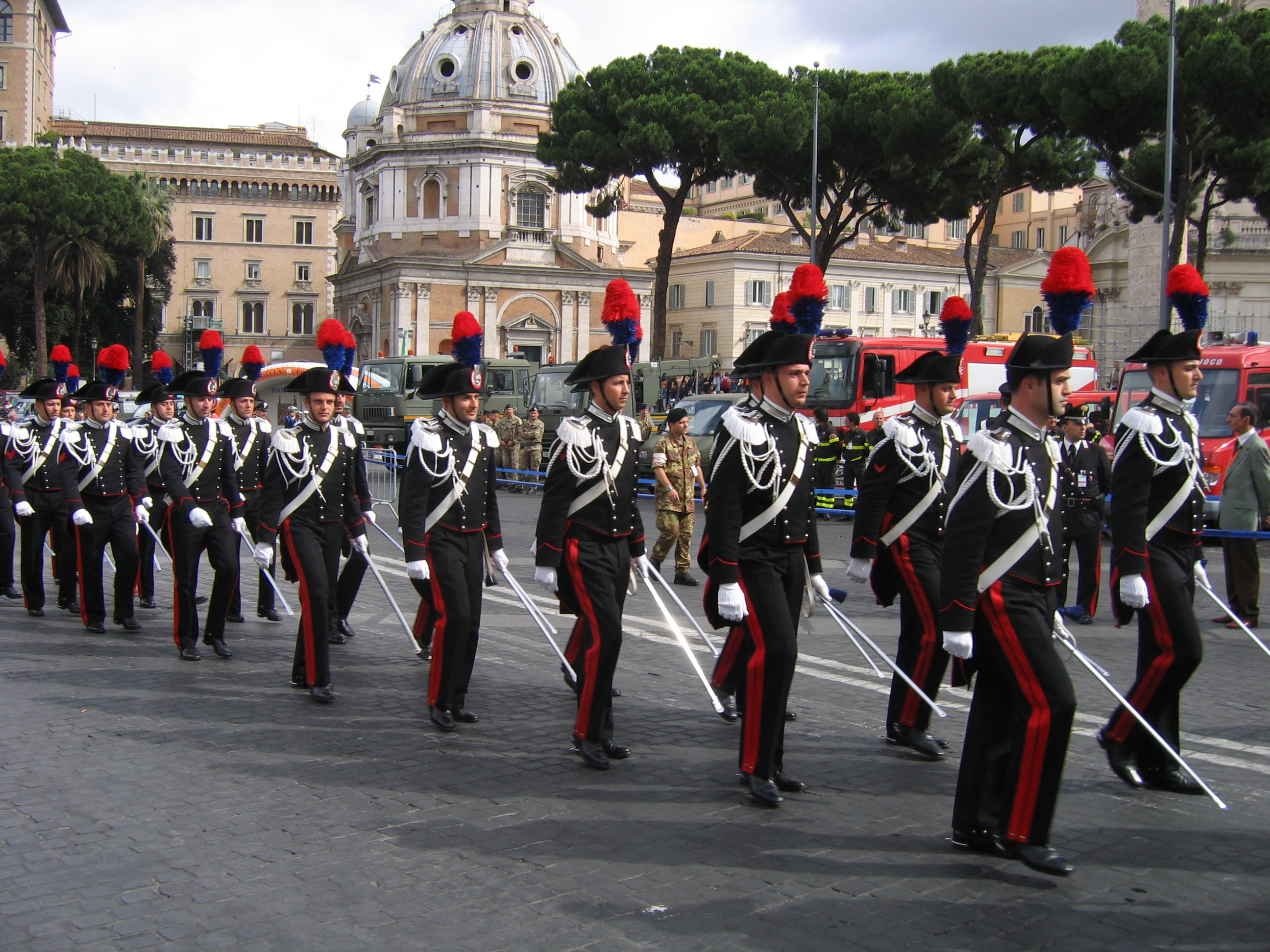 Italian Carabinieri in dress uniform for Republic Day parade of 2007.